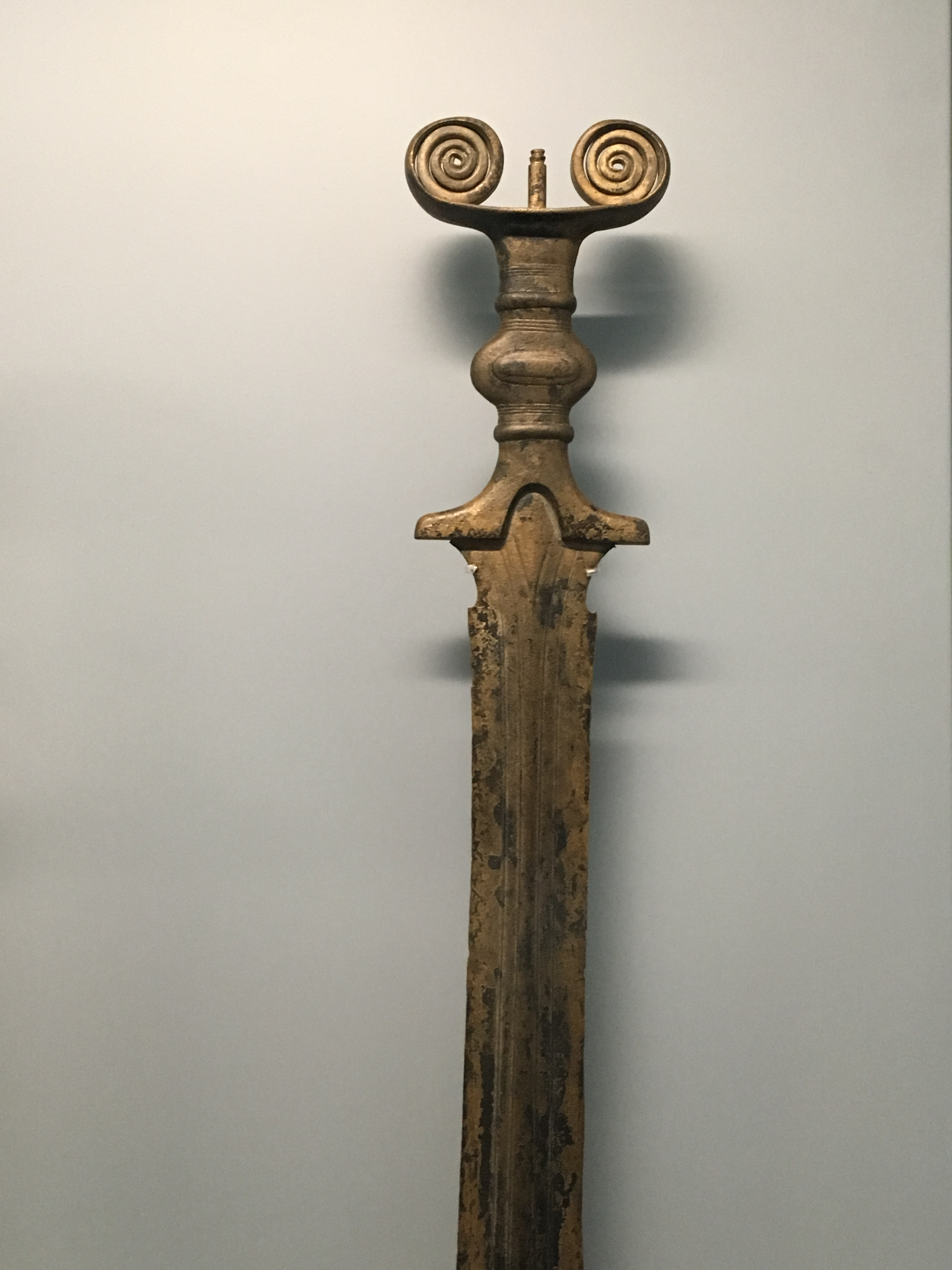 Sword with antennas, Laténium